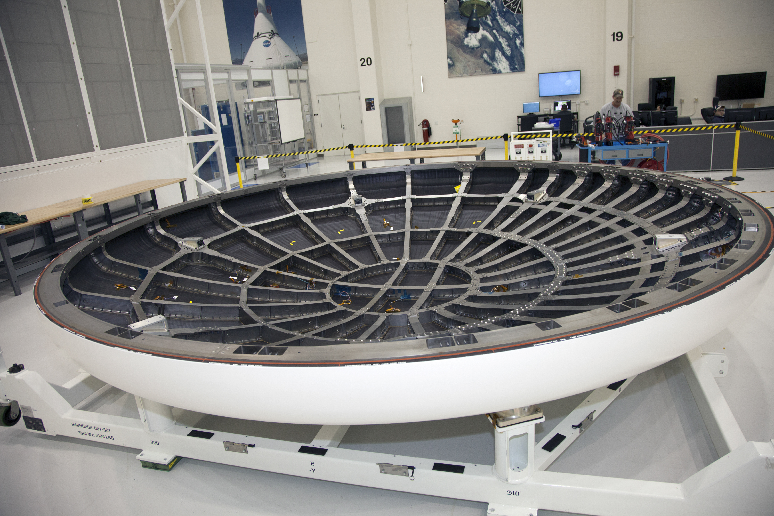 The heat shield for the Orion spacecraft has been placed on a work stand inside the Operations and Checkout Building high bay at NASA’s Kennedy Space Center in Florida.